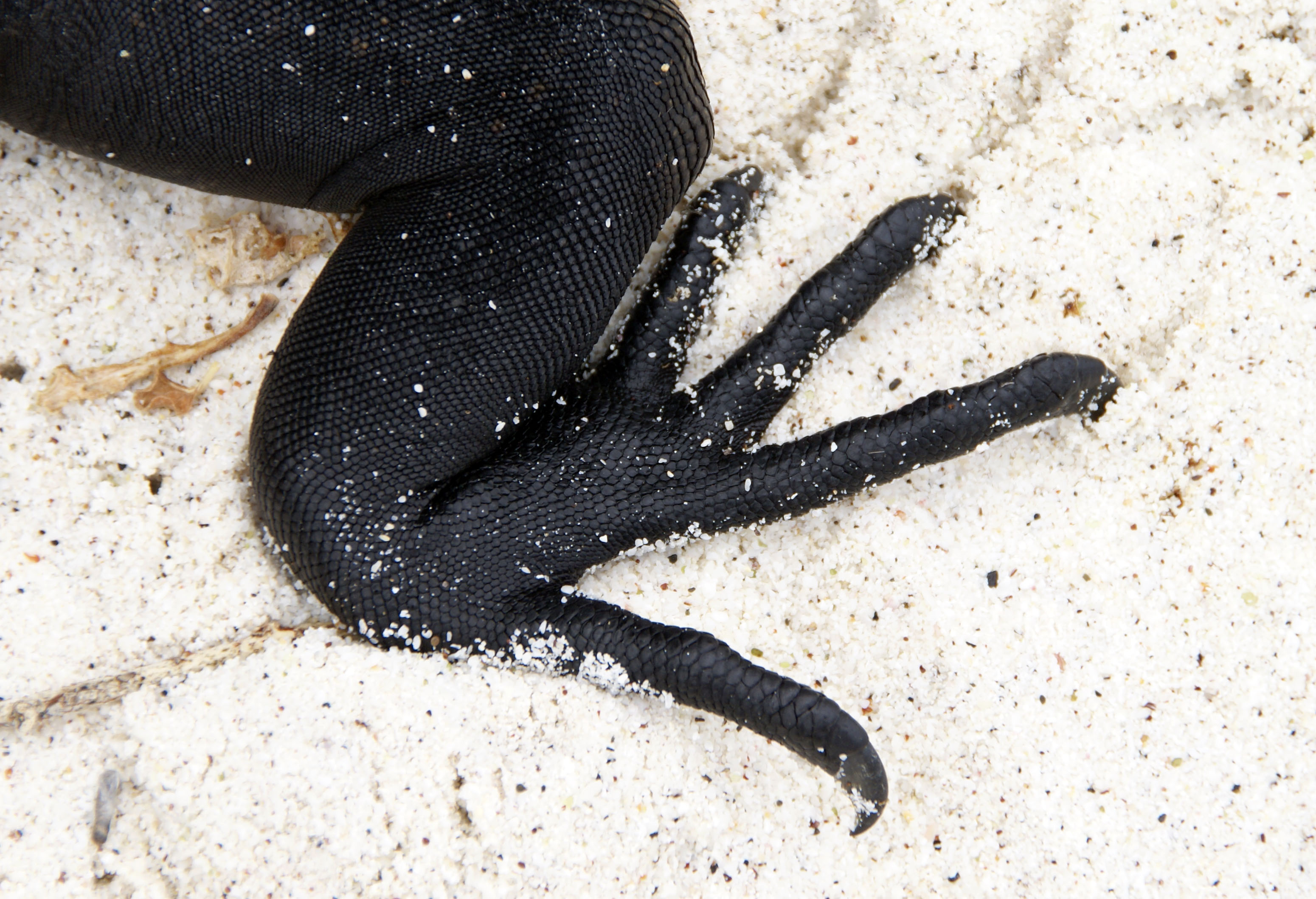 The foot of a Marine Iguana (Amblyrhynchus cristatus) at Española Island, Galapagos Islands.